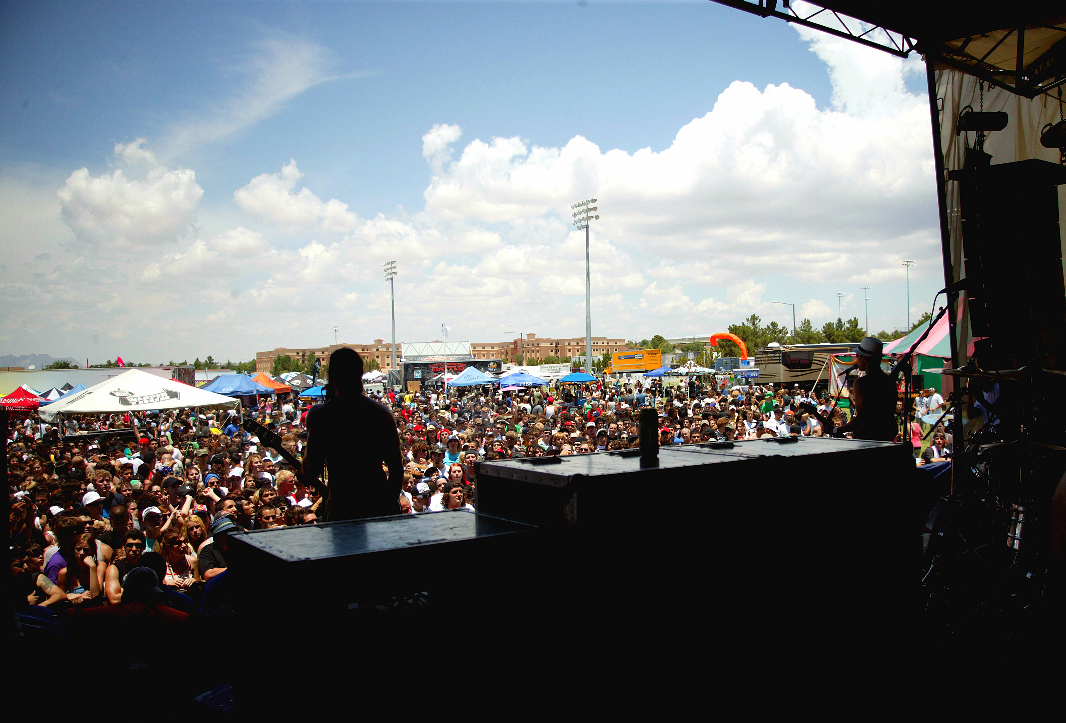 Warped Tour, Las Cruces New Mexico.